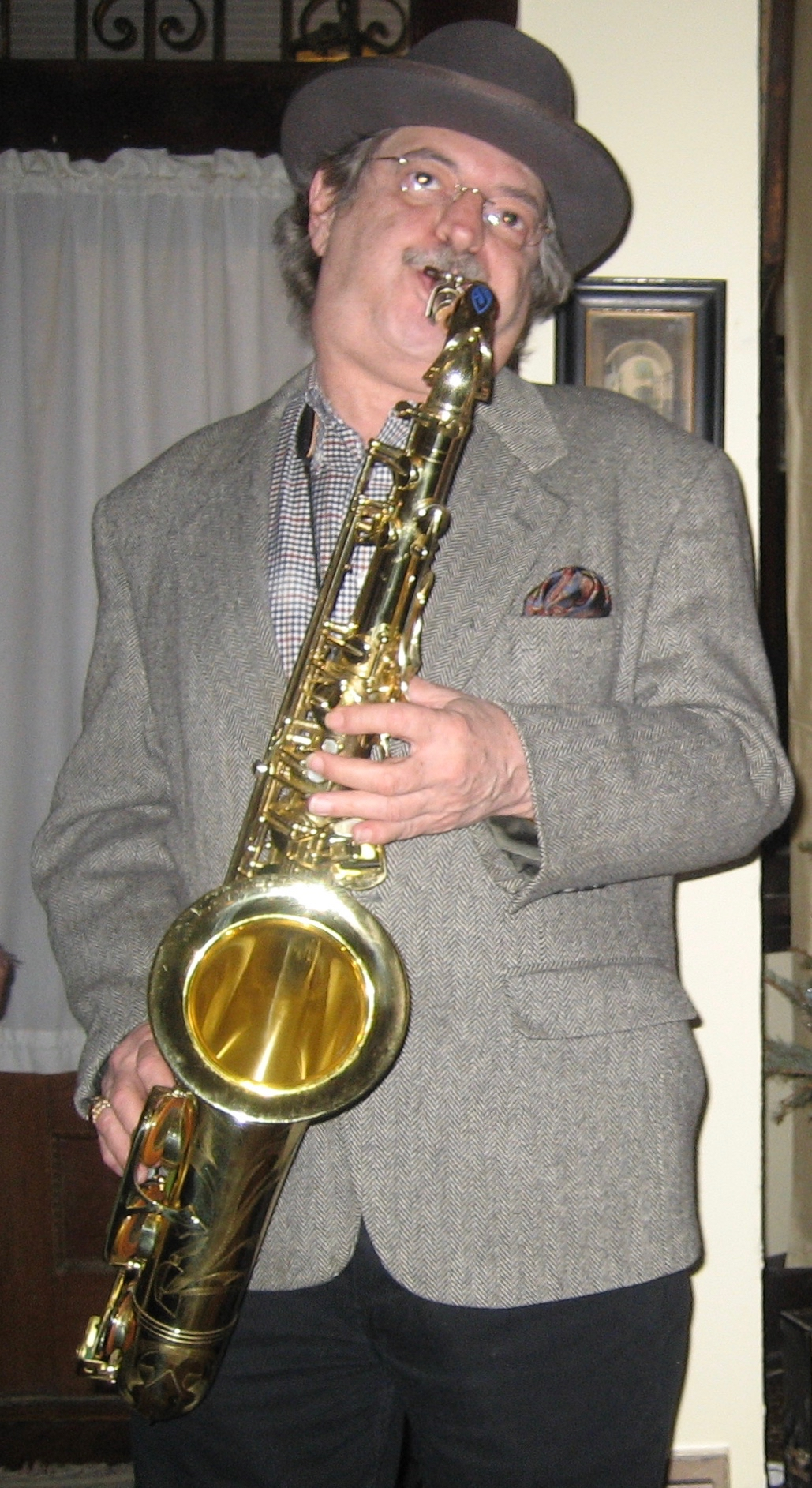 Jerry Jumonville playing saxophone at New Year Day party New Orleans 2008